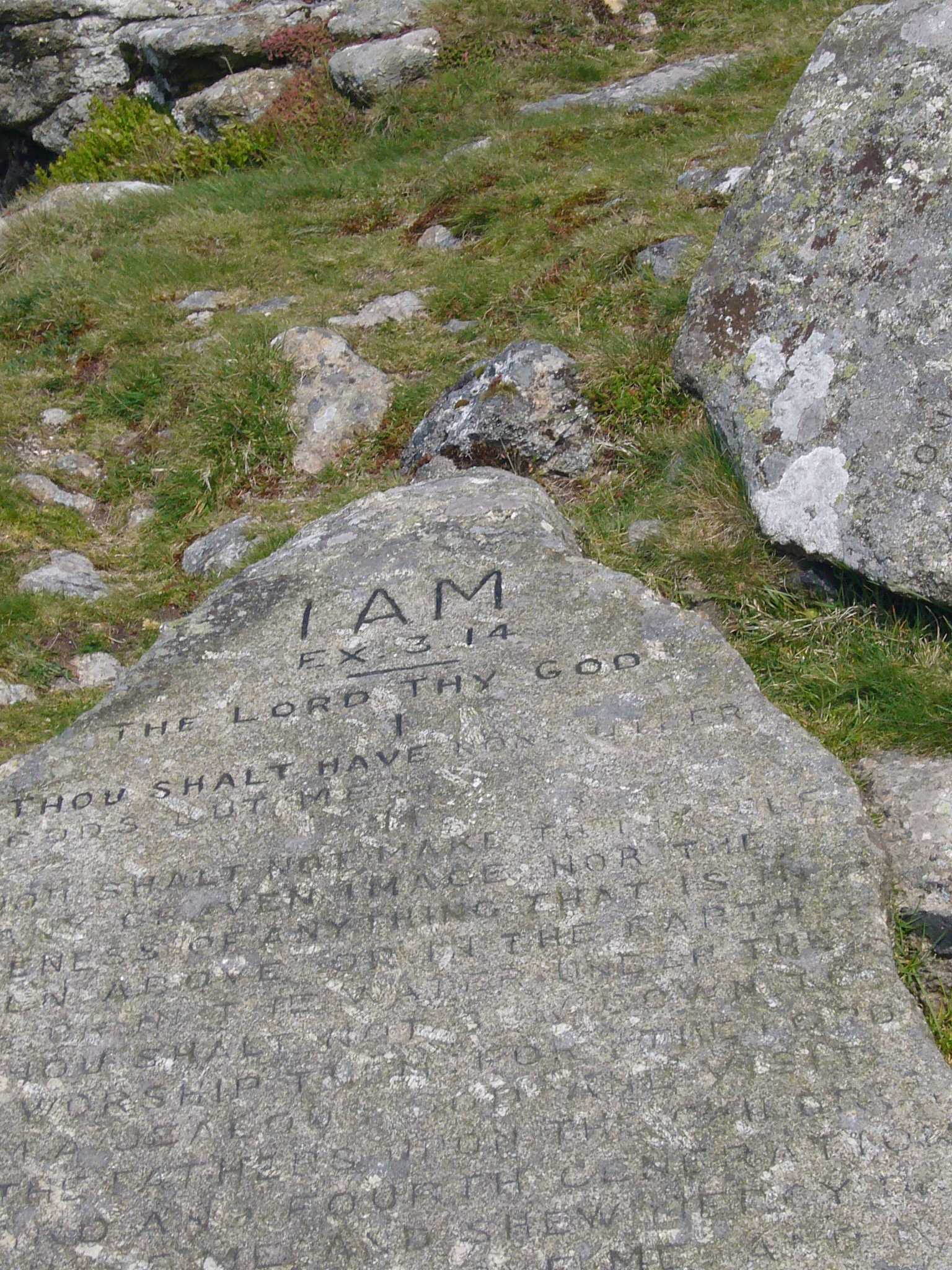 Detail of one of the stones with the "Ten Commandments" on close to Buckland in the Moor on Dartmoor in Devon. See Buckland in the Moor for more information.